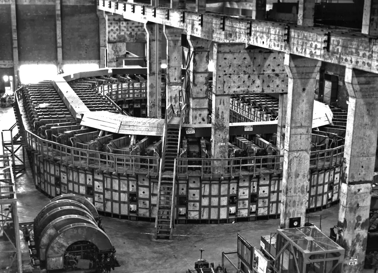 Alpha I racetrack, Y-12 Uranium 235 electromagnetic separation plant, Manhattan Project, Clinton Engineer Works, Oak Ridge